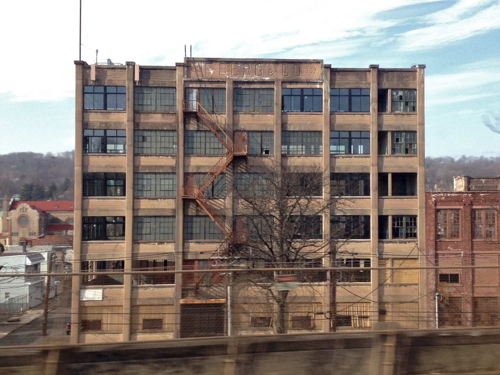 F. Berg hat factory in Orange, New Jersey, as seen from a NJ Transit train. The top of the building says 1864 and 1907.